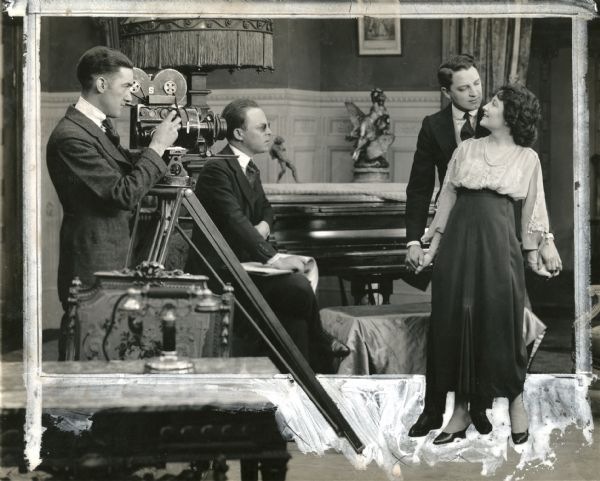 Essanay silent film director Harry Beaumont, wearing tinted pince-nez, watches Bryant Washburn and Hazel Daly act out a scene for Filling His Own Shoes (1917). The cameraman Will E. Smith cranks a Bell & Howell model 2709 motion picture camera.